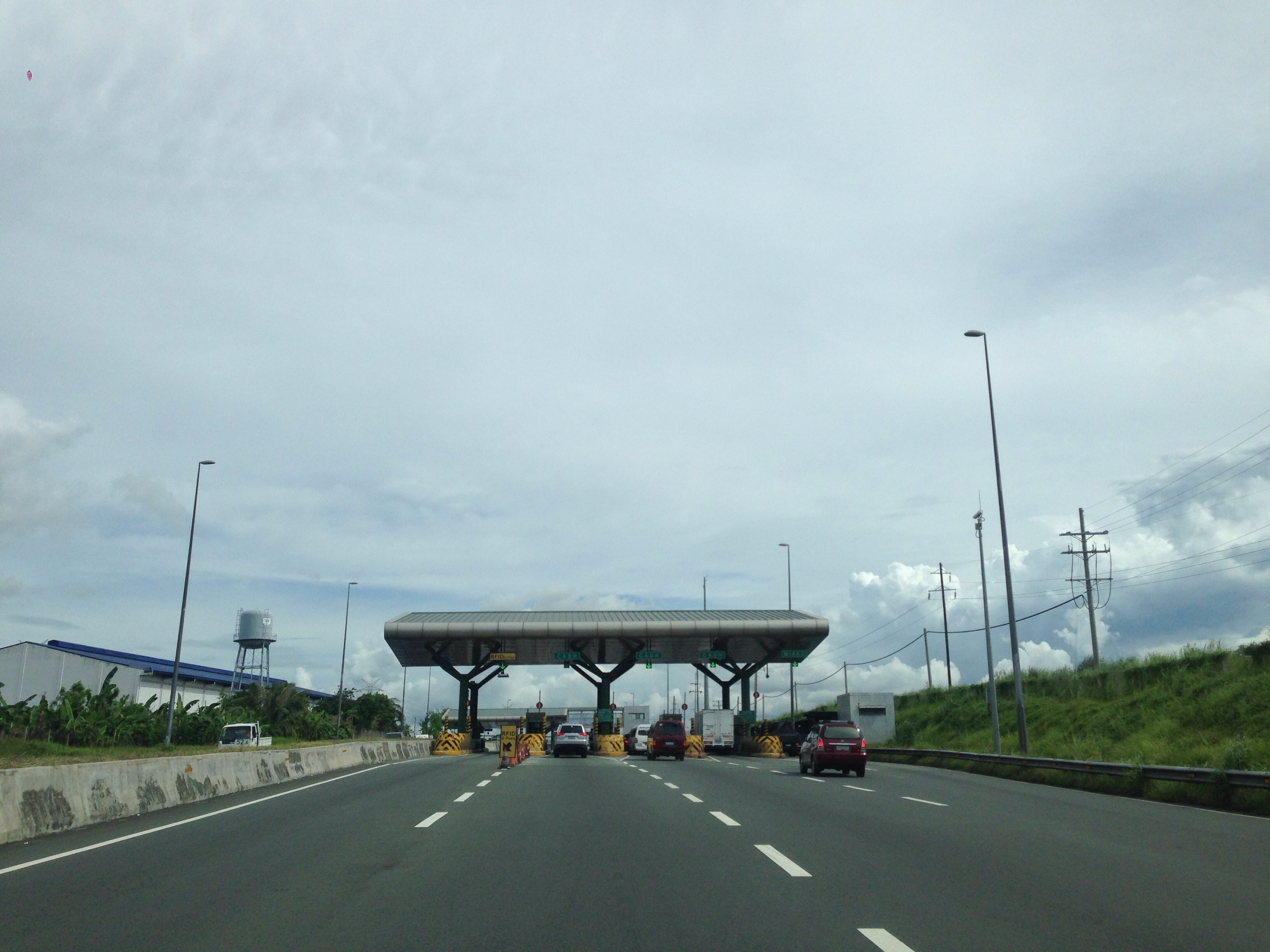 Toll Plaza at the Calamba–Santo Tomas segment of South Luzon Expressway